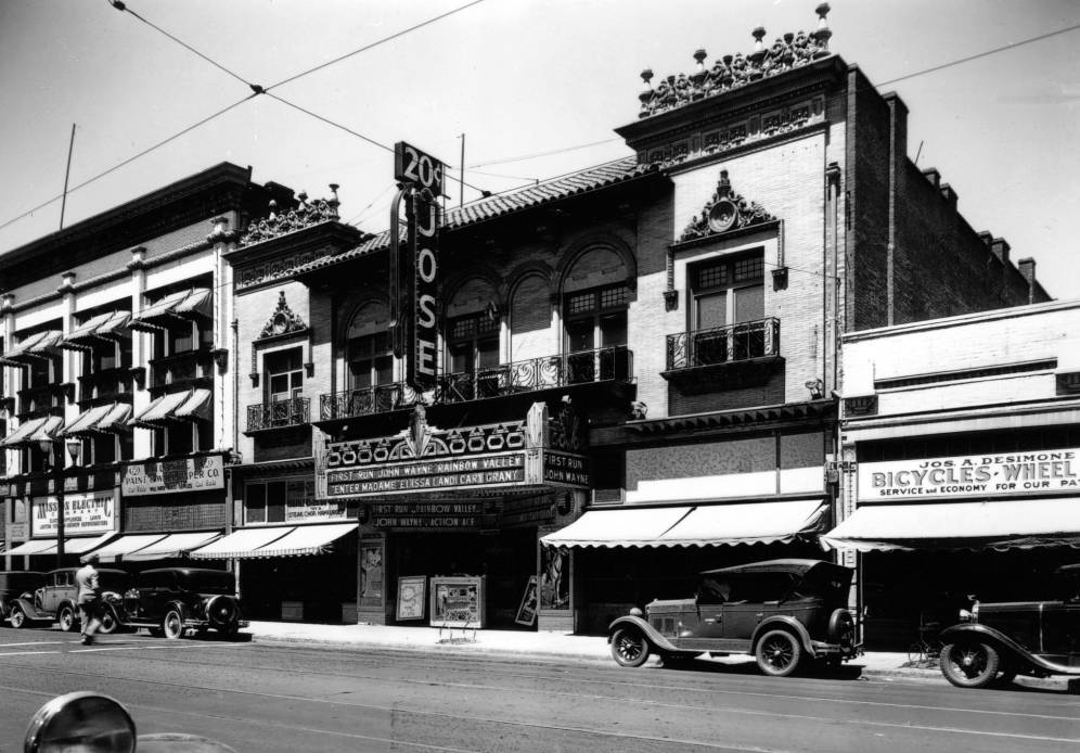 Jose Theatre located on Second Street in San Jose, California. The Jose was built in 1904, it is the oldest theater in San Jose, California. It is a designated city of San Jose historic landmark. Photo taken in 1935 by photographer John C. Gordon. The theater is showing the John Wayne film Rainbow Valley (1935).